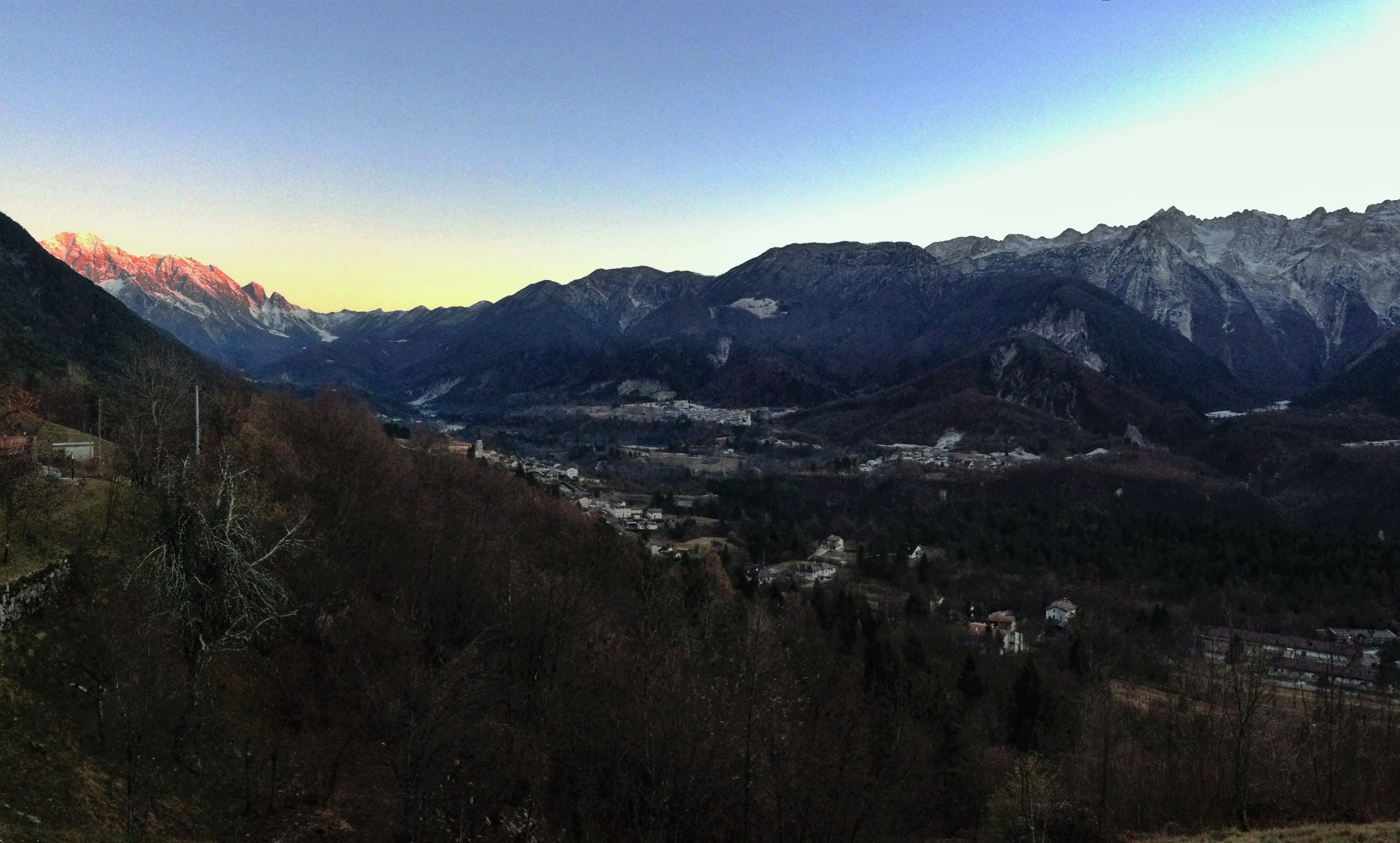 In this picture we can see a portion of the Resia Valley, we can see in it the villages of Prato, Gniva and Oseacco, and the Mt. Canin.